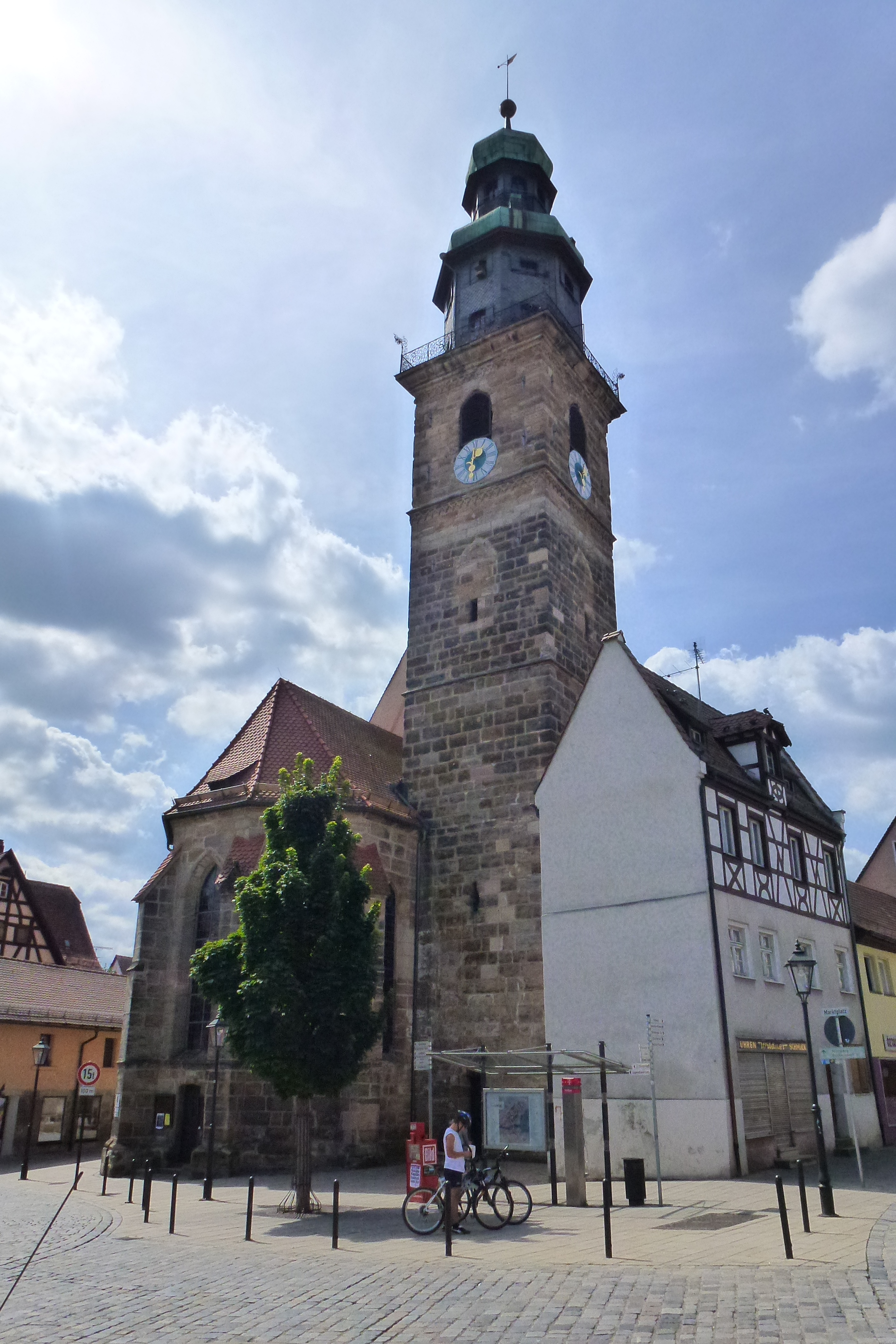 Johannes church in Lauf a.d. Pegnitz